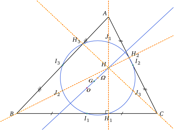 Euler circle and Euler line of a triangle